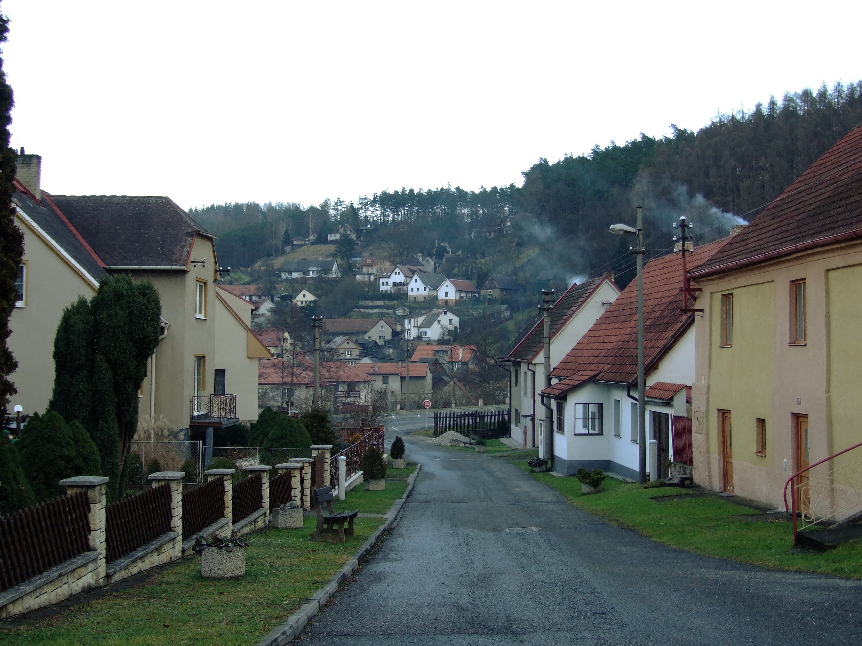 Městečko town in Rakovník district, CZ